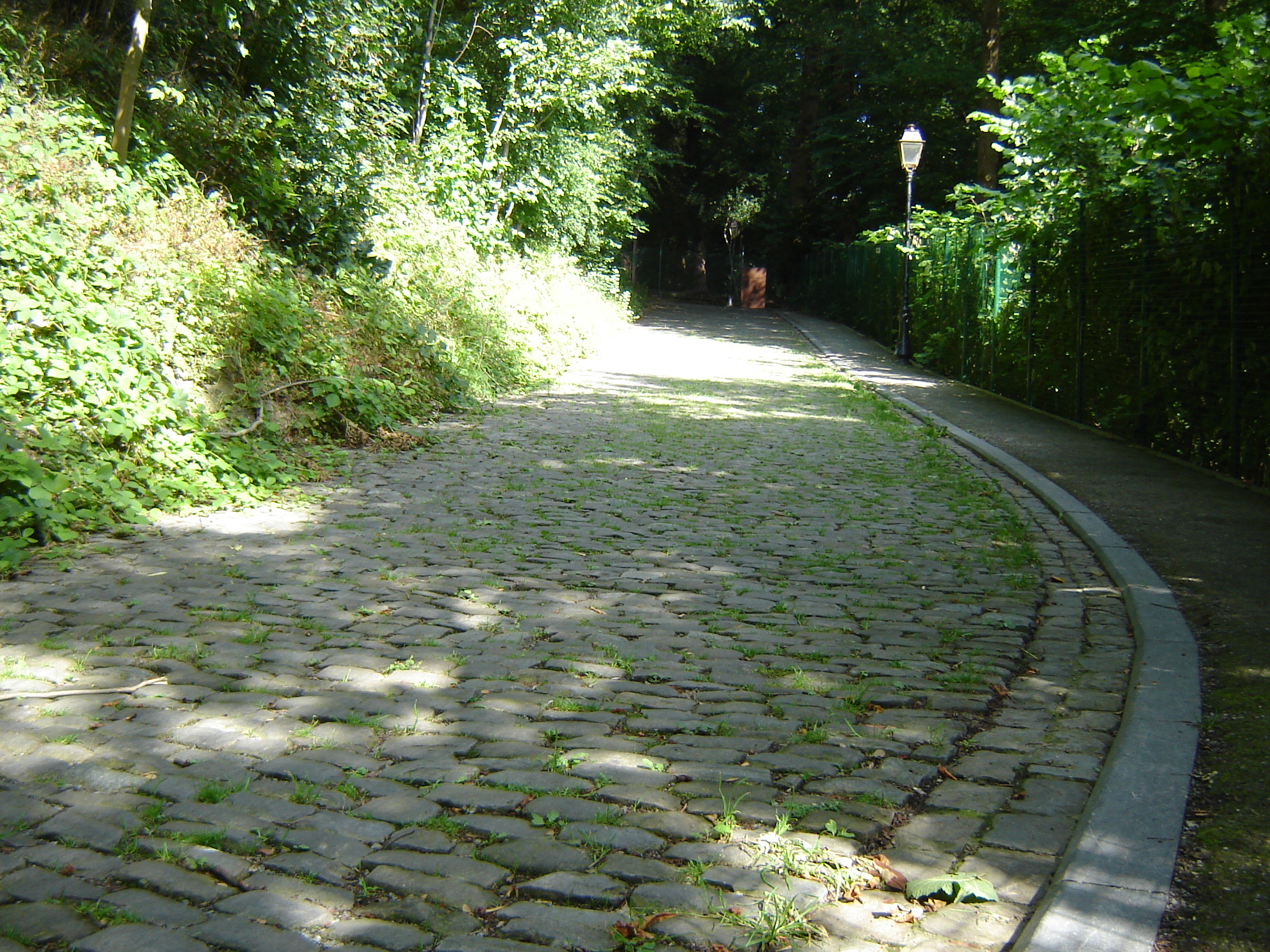 "Muur van Geraardsbergen" (literally Wall of Geraardsbergen). Climb known from cycling classics. Geraardsbergen, East Flanders, Belgium.